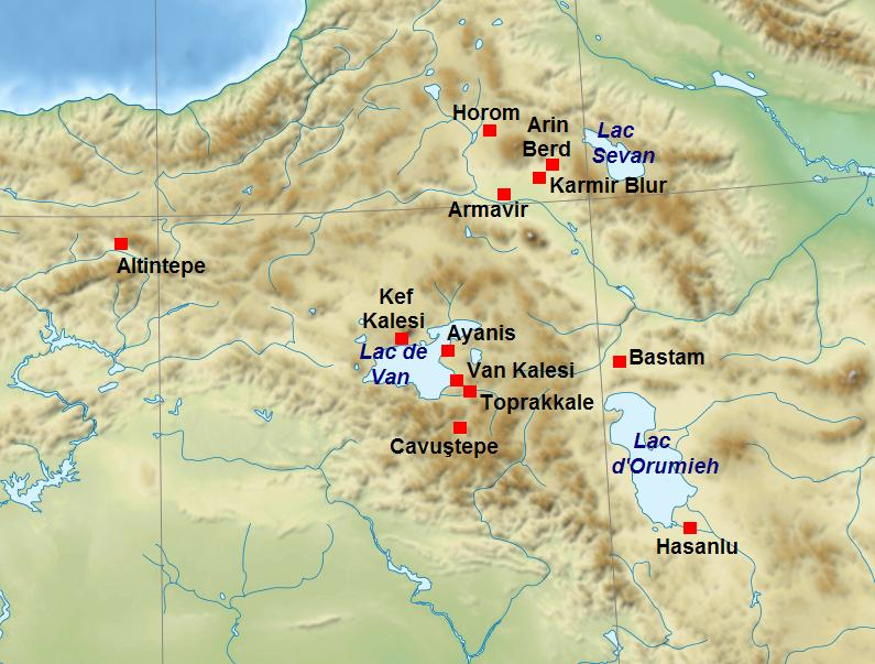 Location map of the main fortresses of the kingdom of Urartu